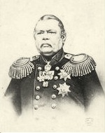 Count Muravyov-Vilensky